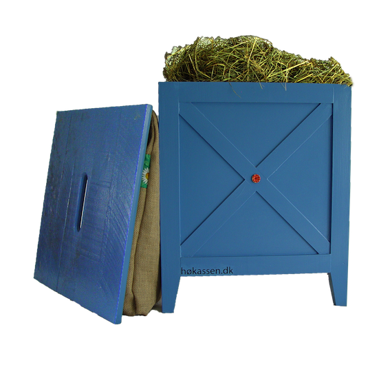 Danish Design Haybox - Høkasse (2009)